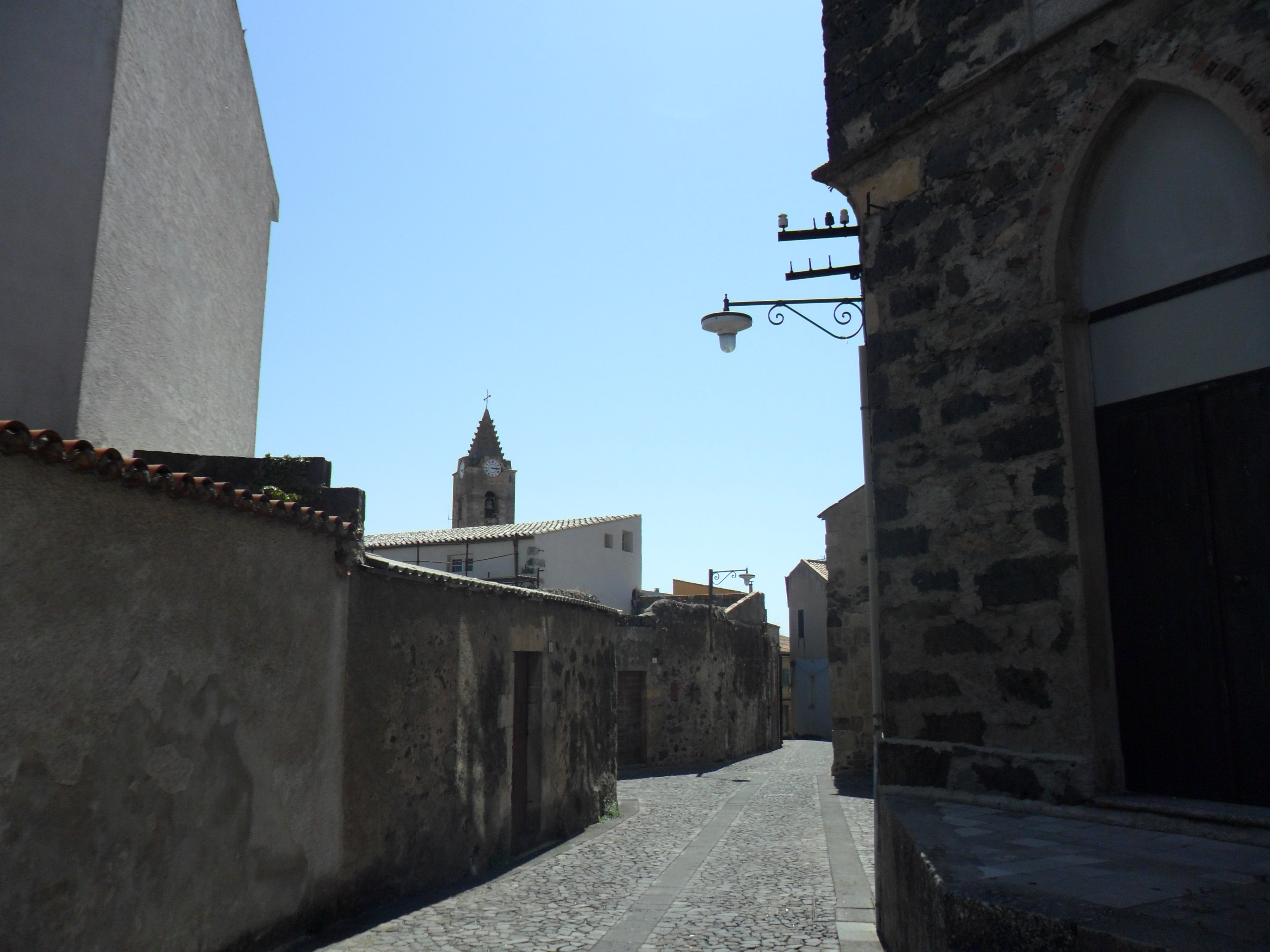 Historical center of Pozzomaggiore (SS)